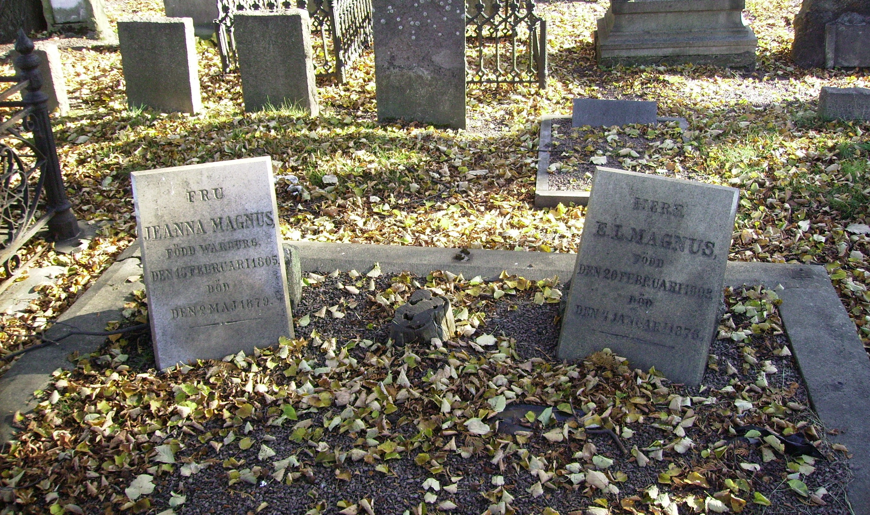 Picture of Jeanna Warburg and Emanuel Lazarus Magnus grave at Mosaiska begravningsplatsen at Svingeln in Göteborg